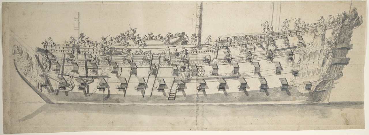 Portrait of the Royal Charles 1673